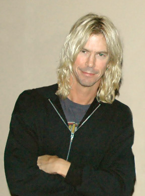 Duff McKagan of Guns N'Roses